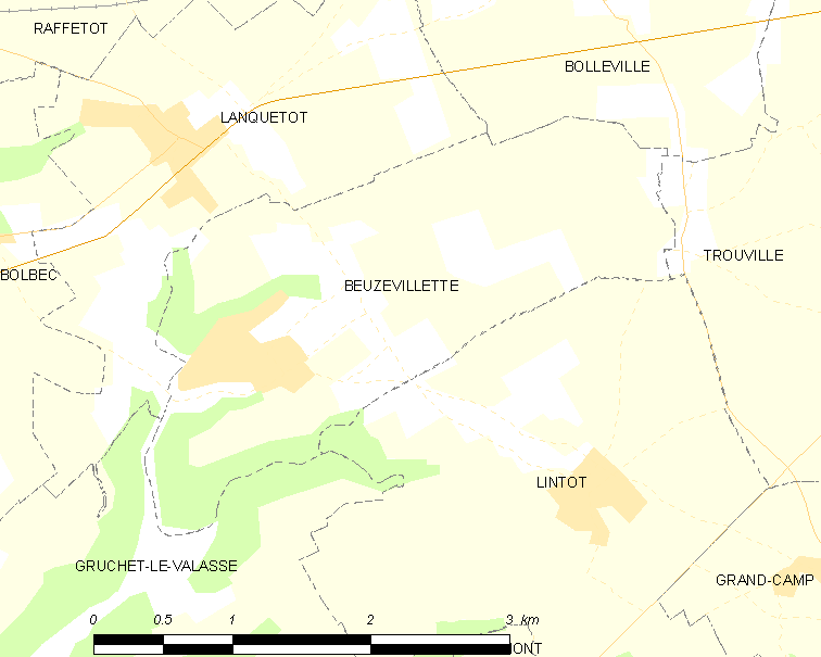 Map of French municipality Beuzevillette